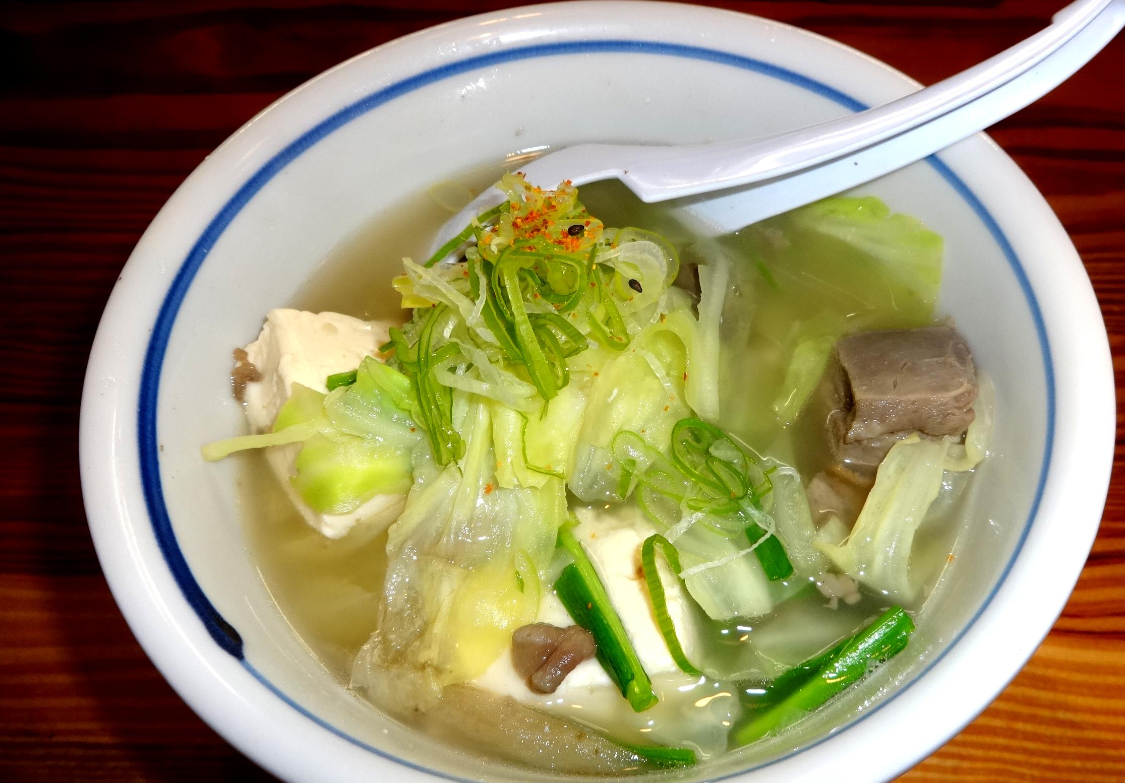 Goat soup with bean curd in Amami City, Kagoshima Prefecture, Japan